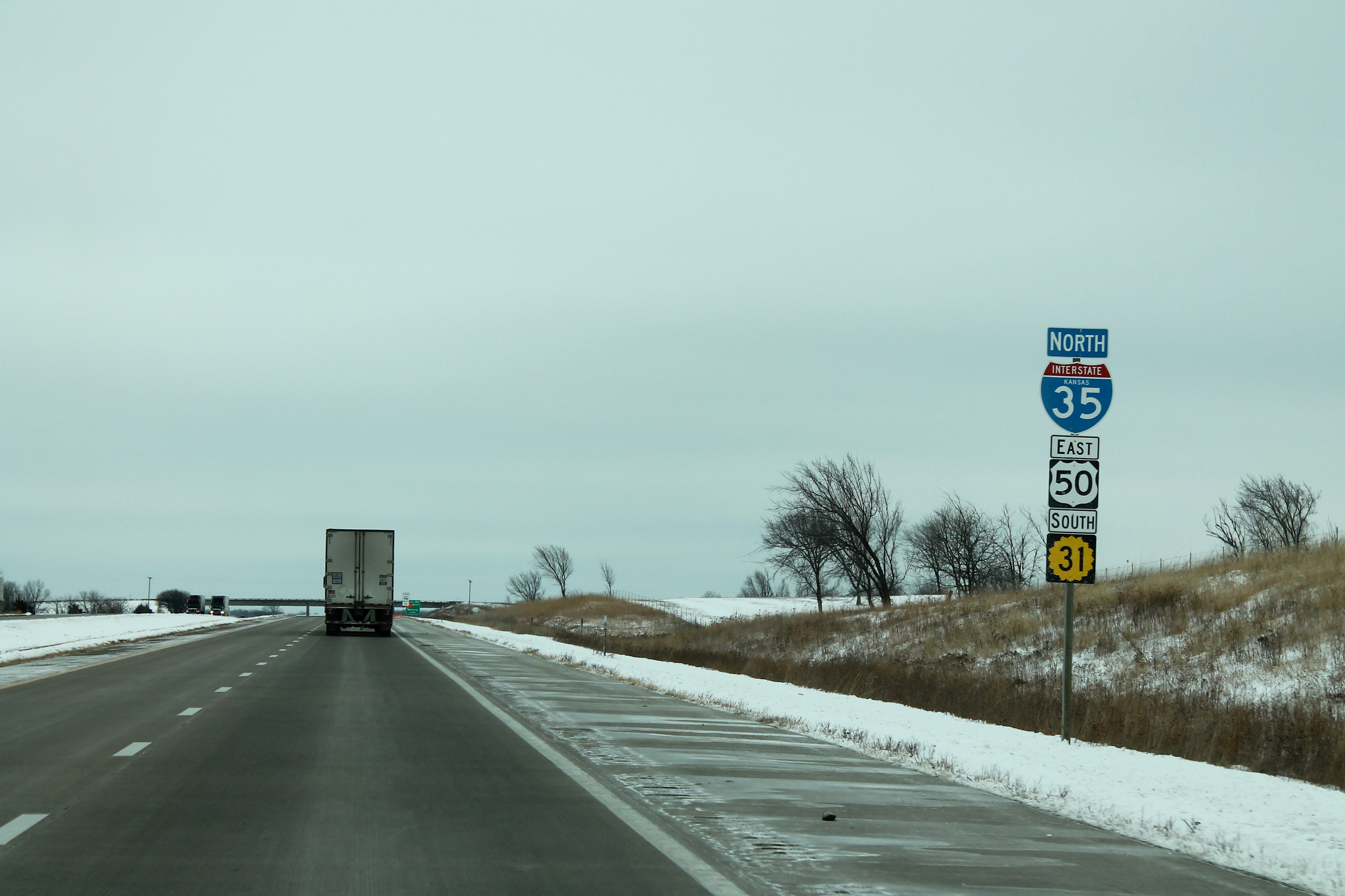 Triplex of routes on I-35 North in Kansas.